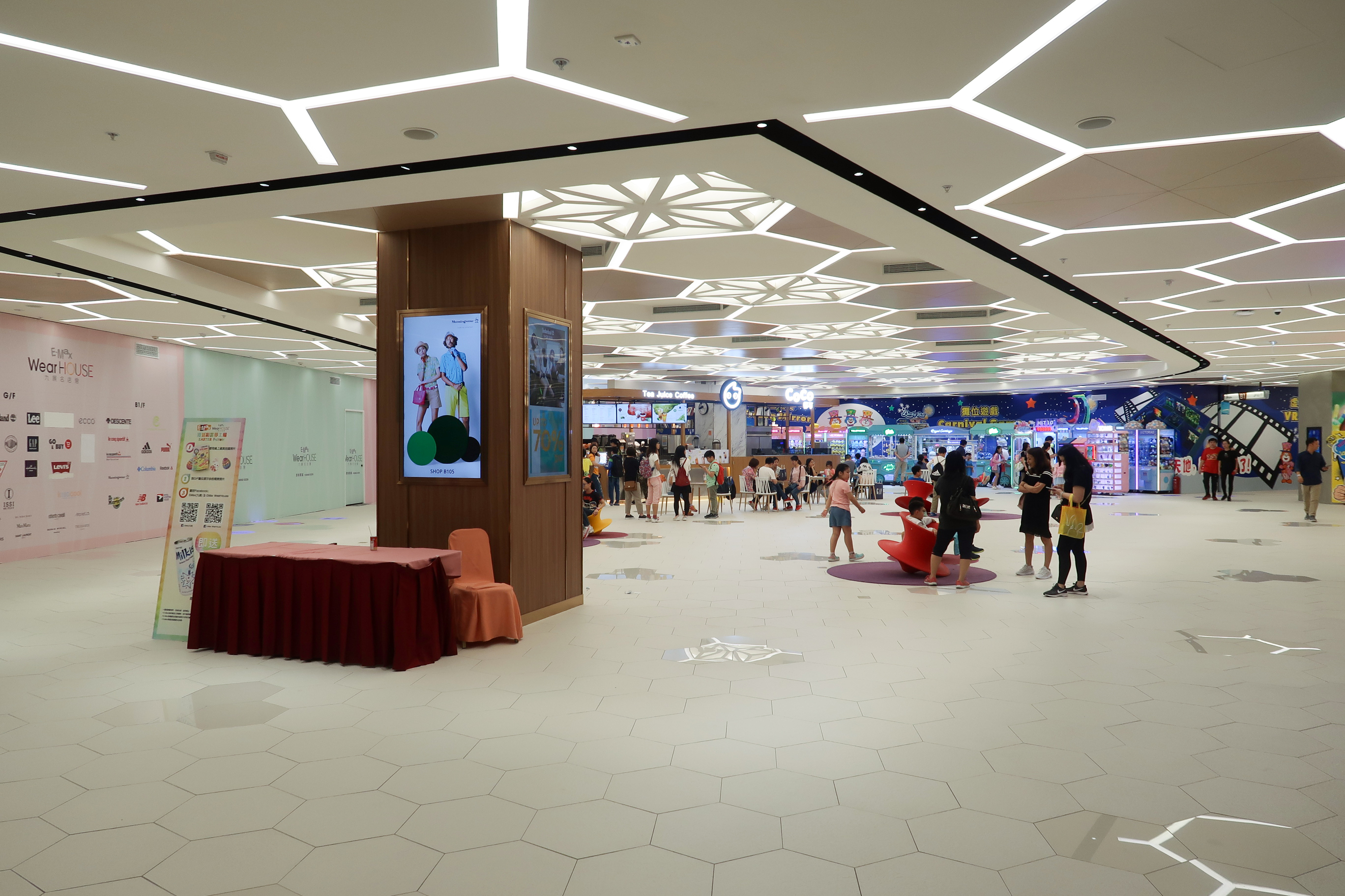 EMax B1 WearHouse